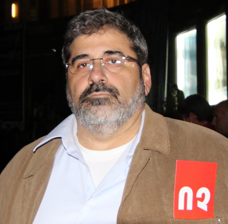 Giro Manoyan at the Yerevan demonstration organized by the ARF after the signing of the Armenia-Turkey protocols.